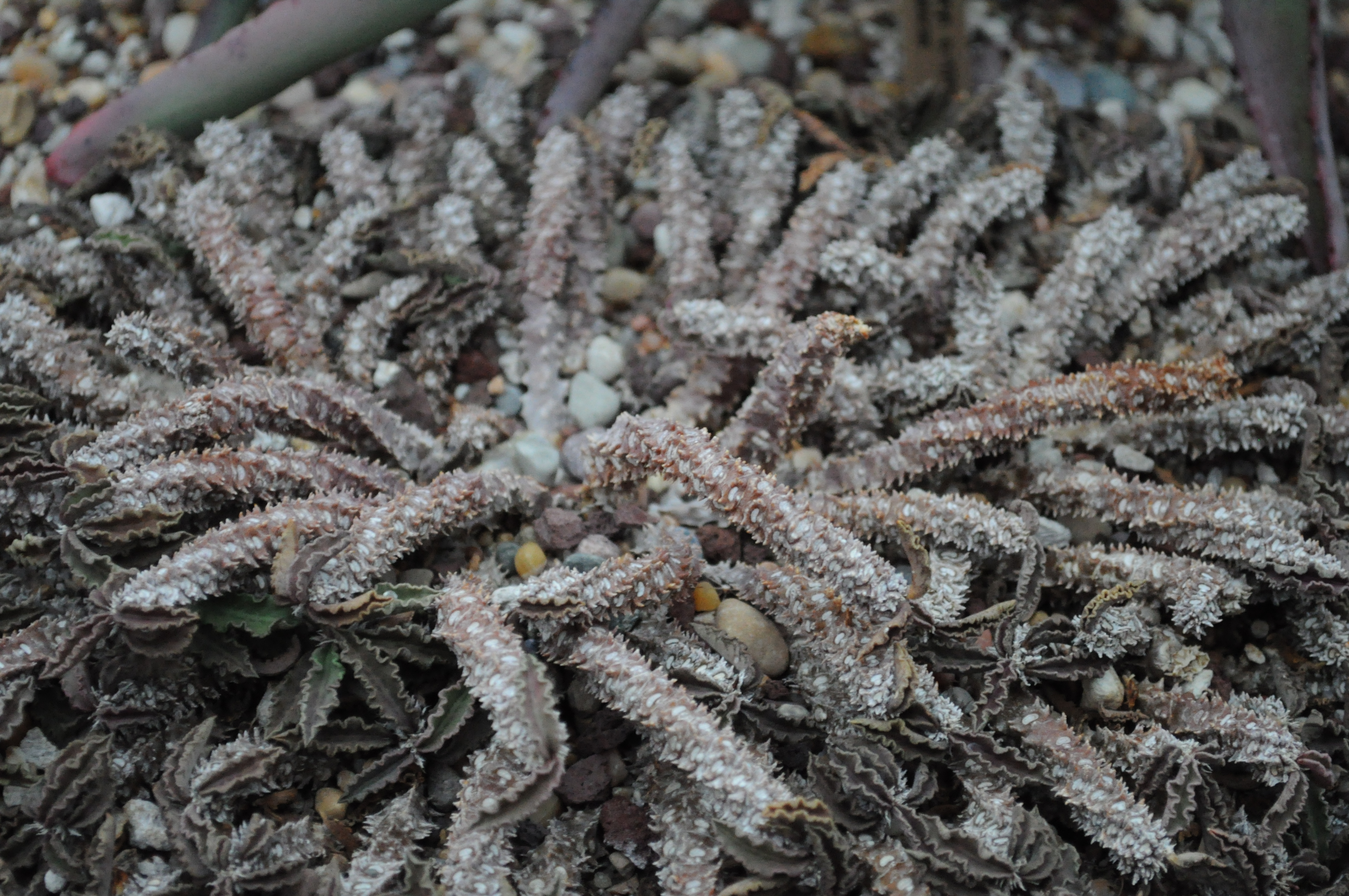 Euphorbia decaryi c-1763. SE Madagascar. Volunteer Park Conservatory, Volunteer Park, Capitol Hill, Seattle, Washington, USA.